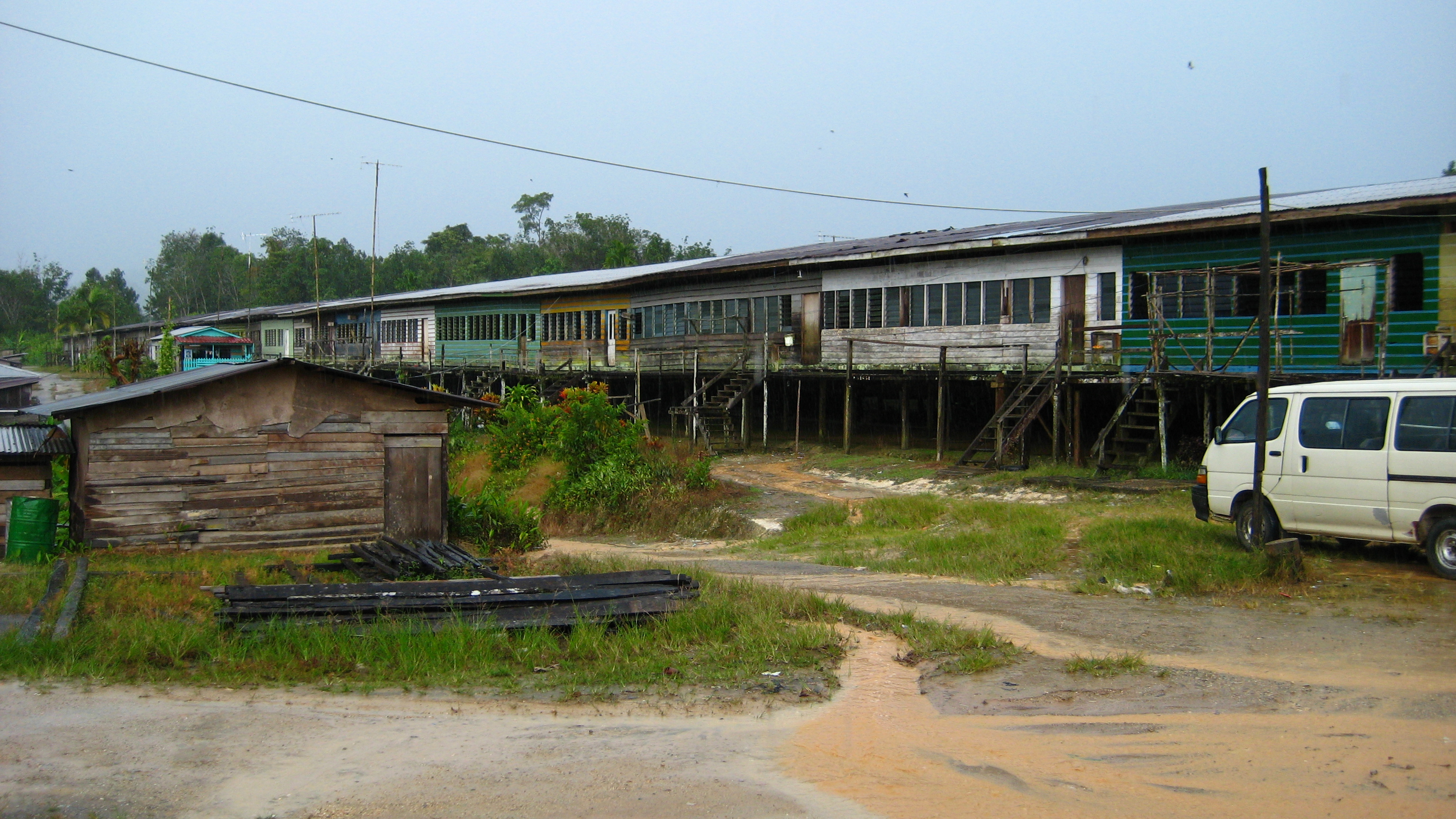 iban longhouse